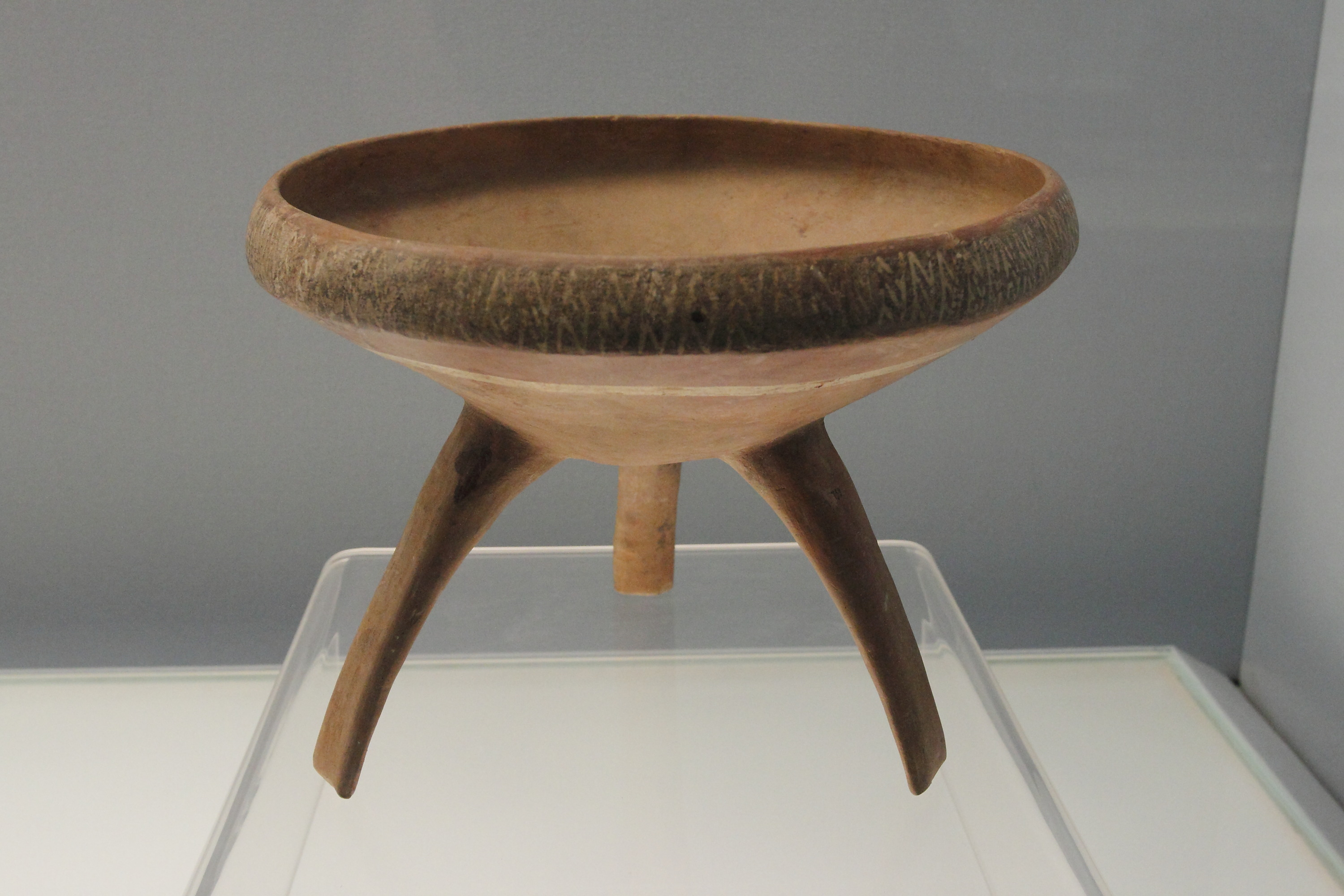 Painted Bo-Shaped Pottery Ding(Tripot), early Dawenkou Culture，4300～3500 B.C., a collection of Shanghai Museum